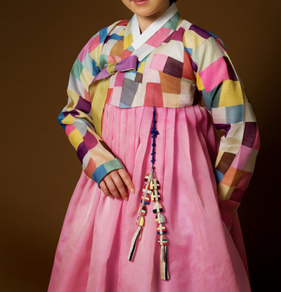 A woman wearing a jacket featuring jogakbo (Korean traditional patchwork) (Source: Han Style). The photo also features a norigae, a traditional accessory hung from the skirt.